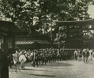 Hitlerjugend visit to Meiji Shrine September 1938